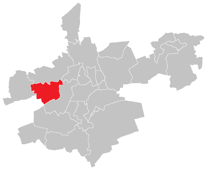 Location map of Olomouc district Neředín